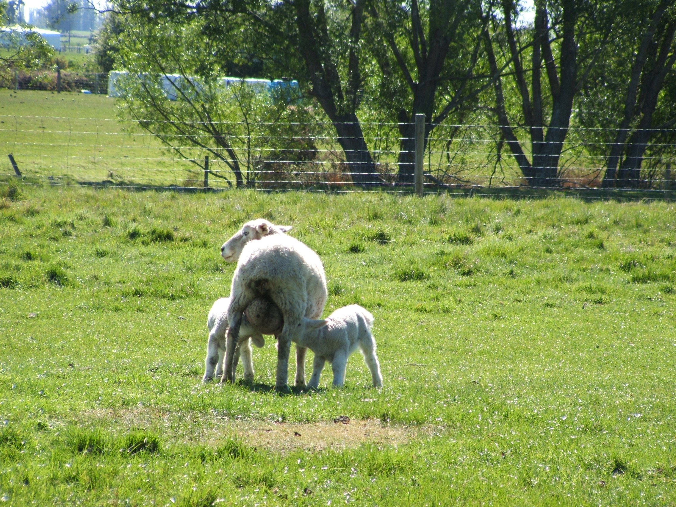 Two baby sheep (or lambs) feeding from the milk from their mother, who is looking at me. Photo taken in Canterbury, New Zealand.